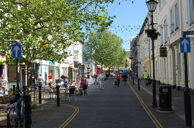 Ashford High Street